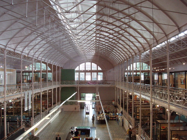 Iron internal structure of Museum of Childhood. The iron structure was part of the temporary first building of the South Kensington Museum around 1857 after the Great Exhibition. By 1865 it had been replaced by more dignified permanent buildings, now the V & A, and part was moved to Bethnal Green, eventually becoming the Museum of Childhood. See also 872442. In the photo on the ground floor has a central information desk and a shop beyond on the right. Two floors of exhibition around have display cases and play areas.